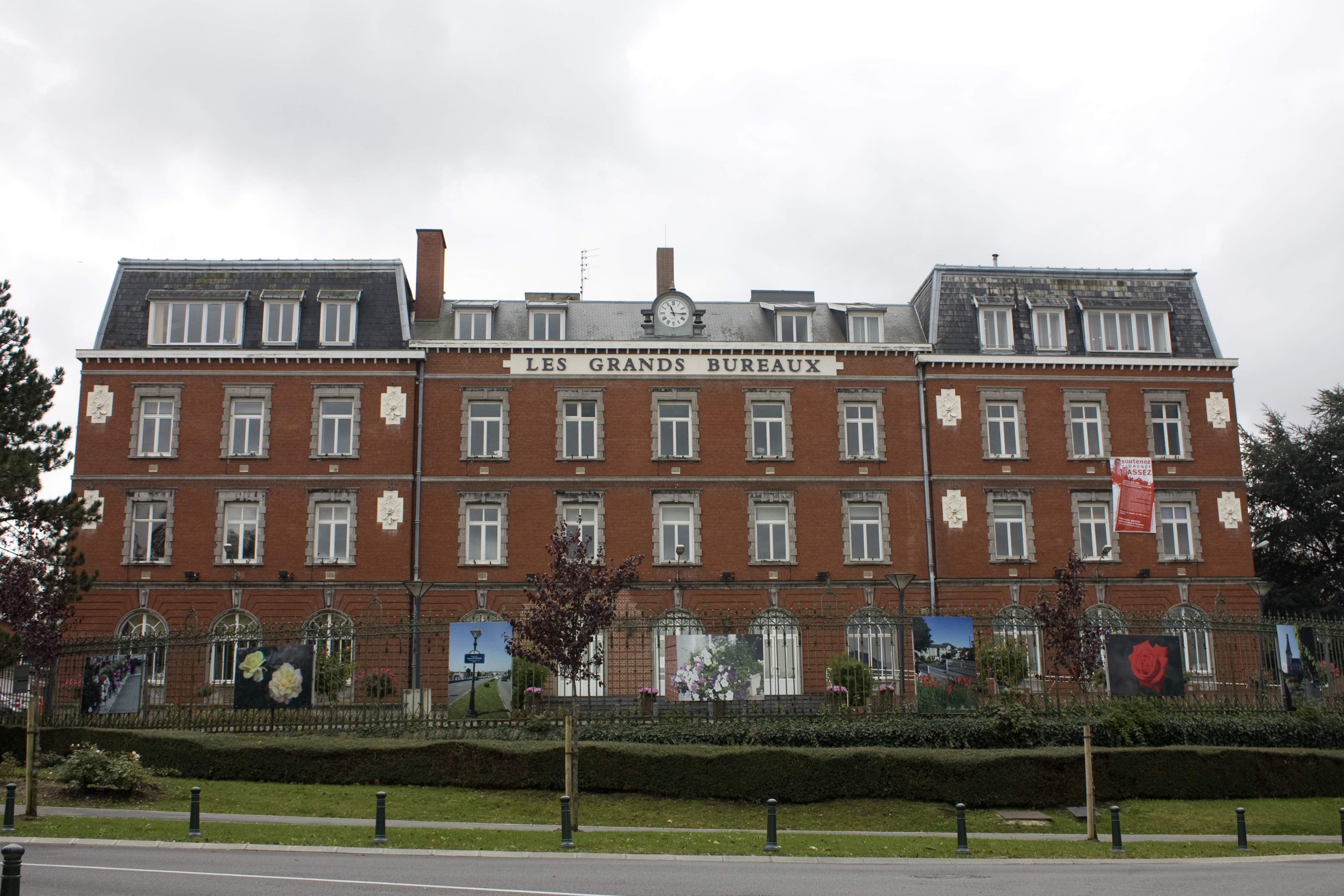 Mines hedquarters became Liévin Hospital before house the city's technical services. This place is a UNESCO World Heritage Site, listed as Bassin minier du Nord-Pas de Calais.